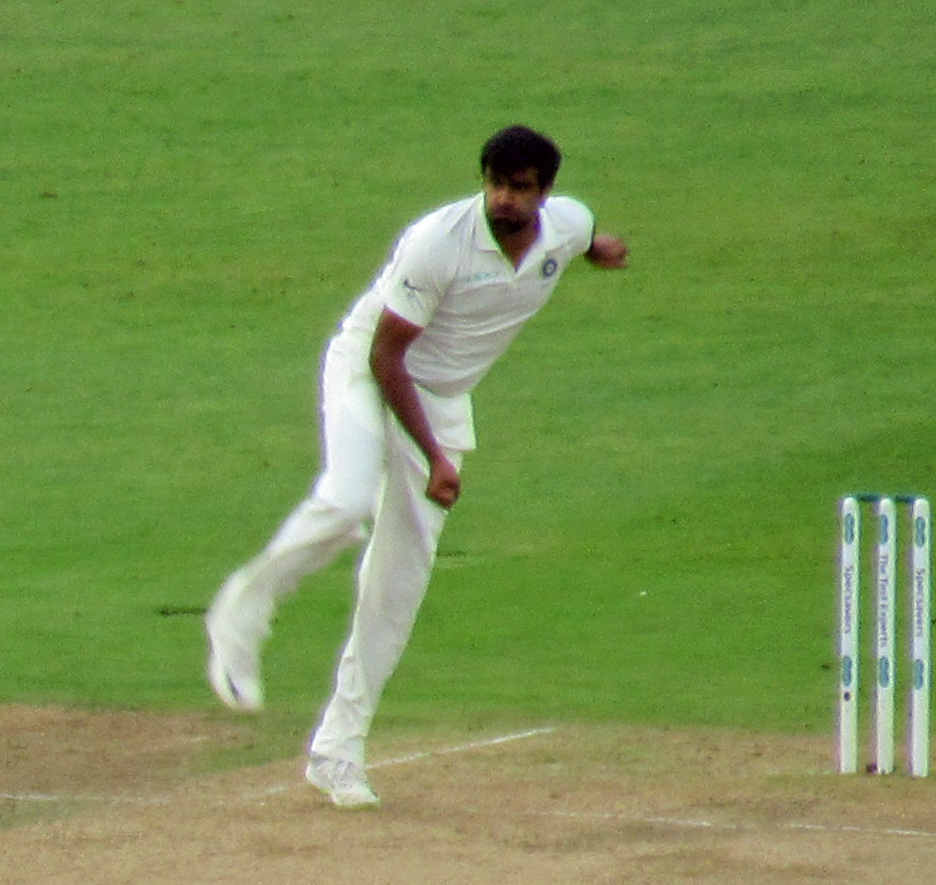 R Ashwin bowling to Alistair Cook; Virat Kohli fielding on the left of the picture.